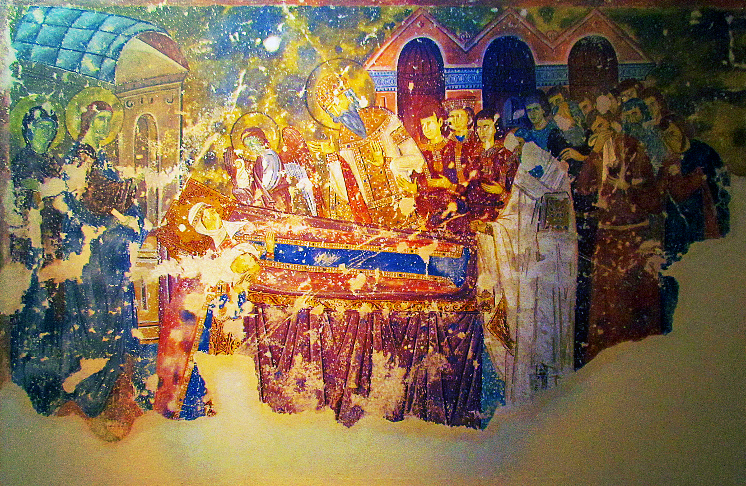 Death of Queen Ana Dondolo, Sopocani monastery, 1272-74